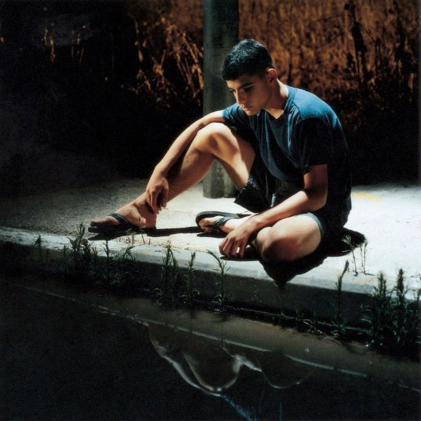 Photograph